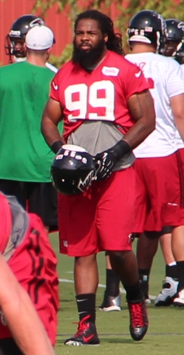 Adrian Clayborn in 2015